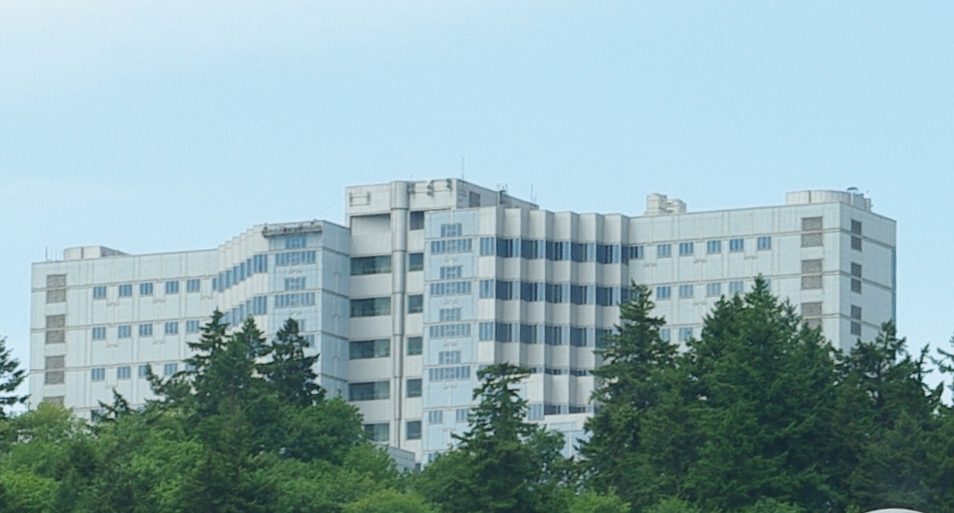 Portland, Oregon, VA medical center